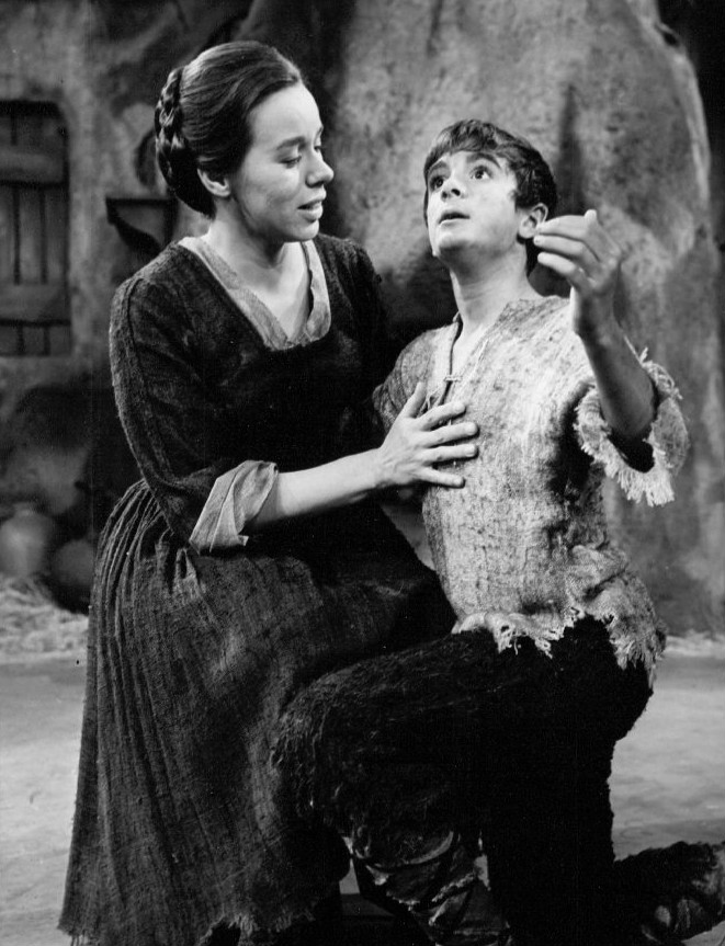 Photo of Kurt Yaghjian in the title role of the opera Amahl and the Night Visitors. Martha King played the role of Amahl's mother. The opera was performed from 1951 to 1966 annually on NBC television as part of its Christmas programming. By 1963, the performance changed from being live to on tape.